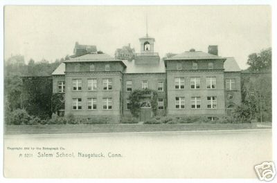 Postcard: Salem School, Naugatuck, 1905 Description: "Undivided Back / Caption on card reads.... / Salem School, Naugatuck, Conn. / Card is unused postally; see scan for condition. / Published by Rotograph, Nr. A5291 - Copyright 1905"